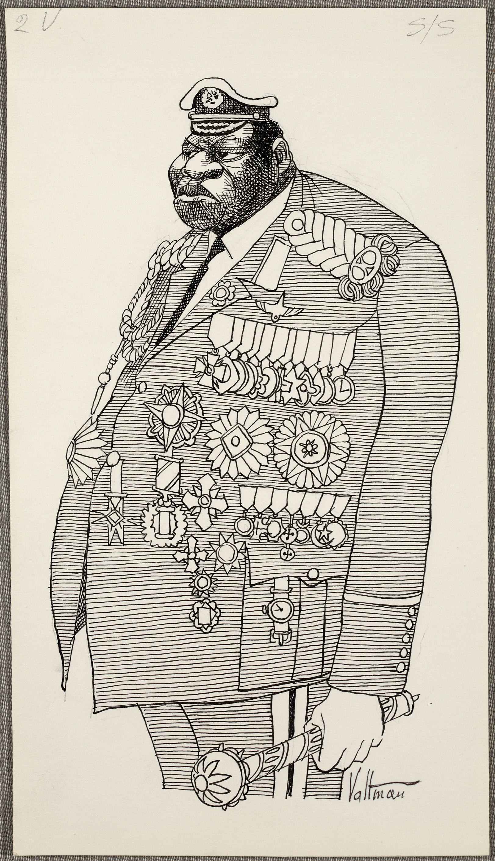 "Caricature shows Idi Amin, President of Uganda from 1971 to 1979 as a bloated, powerful figure in military dress covered with medals and insignia, holding a sceptor, and crowned by a small head with heavy features. While President of Uganda from 1971 to 1979, Idi Amin committed appalling acts of violence against the people of his country. A career army officer, Amin overthrew the elected government of Milton Obote in 1971. During Amin's first year in office, he ordered massacres of troops whom he suspected of disloyalty. In 1972, he expelled Uganda's Indian and Pakistani populations, people who owned most of Uganda's businesses. This hastened the country's economic decline. Following a coup attempt in 1972, Amin sent squads of soldiers to seize and kill Ugandans who criticized him or whom he considered dangerous. Tanzanians and exiled Ugandans infiltrated Uganda and overthrew Amin's government in 1979. He fled to Libya, then Saudi Arabia, then Bahrain. An estimated 300,000, possibly 500,000 civilians may have been killed under Amin's regime." Ink and pencil drawing on board.